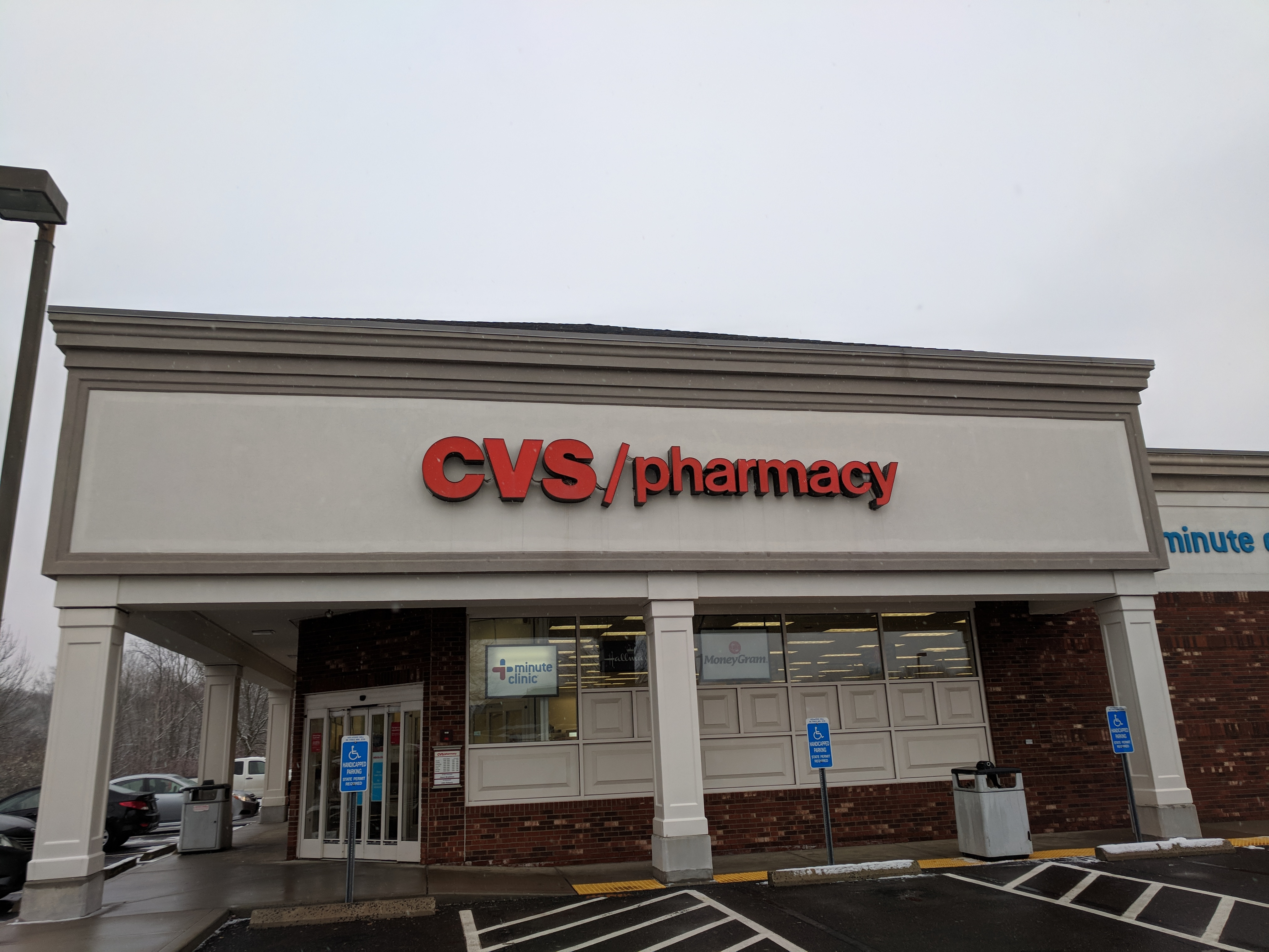 A typical 2000's CVS in Coventry, Connecticut.